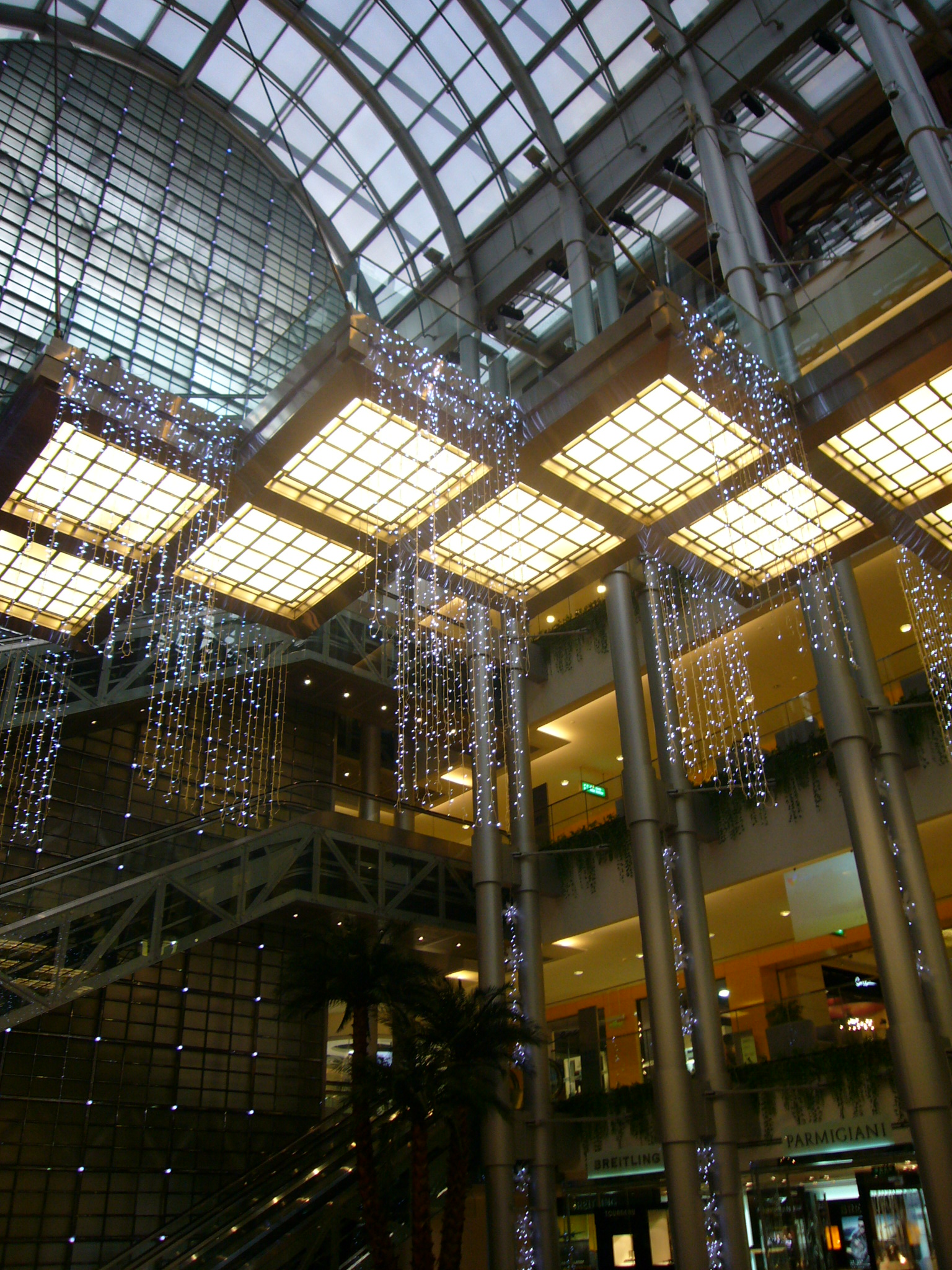 Shopping by the Jin Mao Tower: Breitling etc